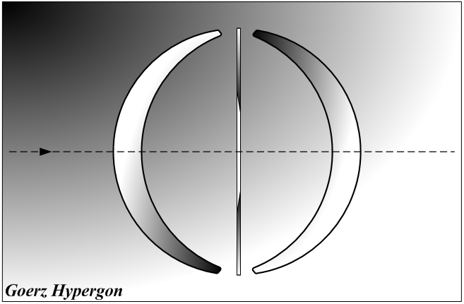 Hypergon lens.